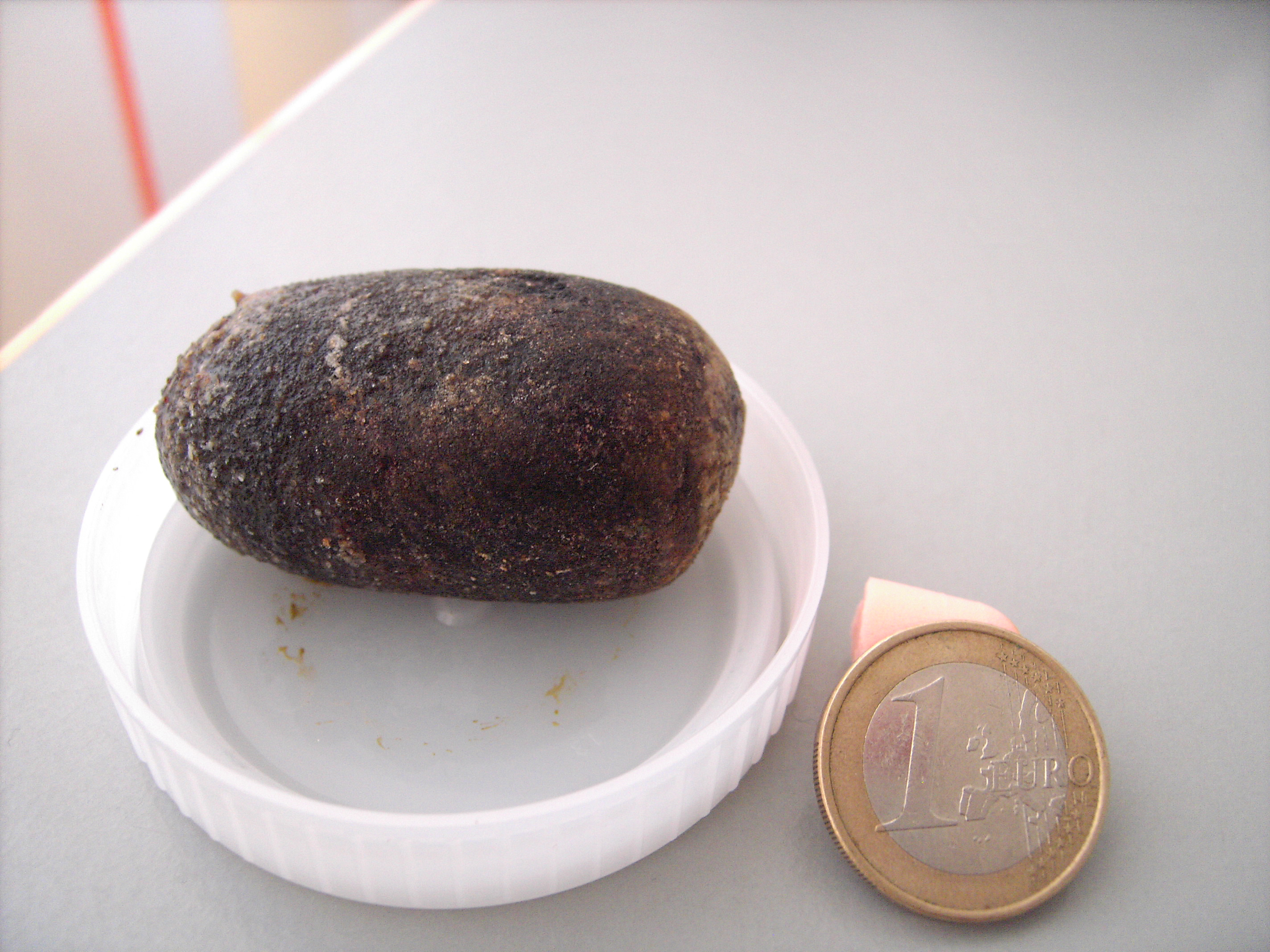 gallstone (calcium bilirubinate stone) of a 43 year old female patient